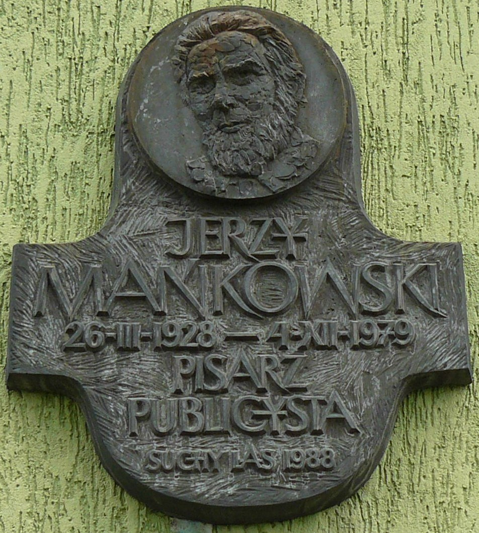 Jerzy Mankowski plaque in Suchy Las.